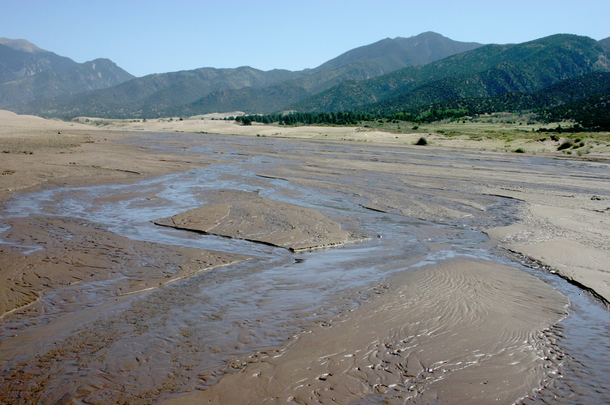 Intermittent Medano Creek seeps through desert sands.